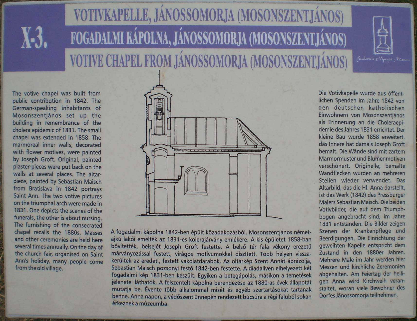 Votive chapel from Jánossomorja (Mosonszentjános). Szentendre, Open Air Museum